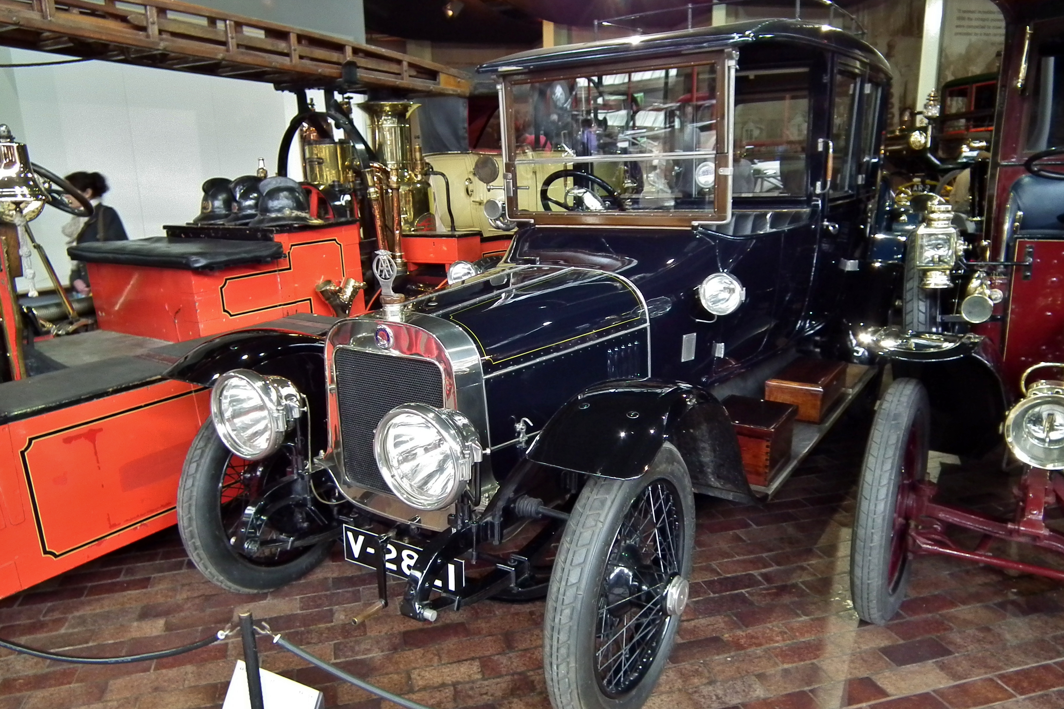 1913 Argyll 15/30 hp. Taken at the National Motor Museum in Beaulieu, Hampshire, England.